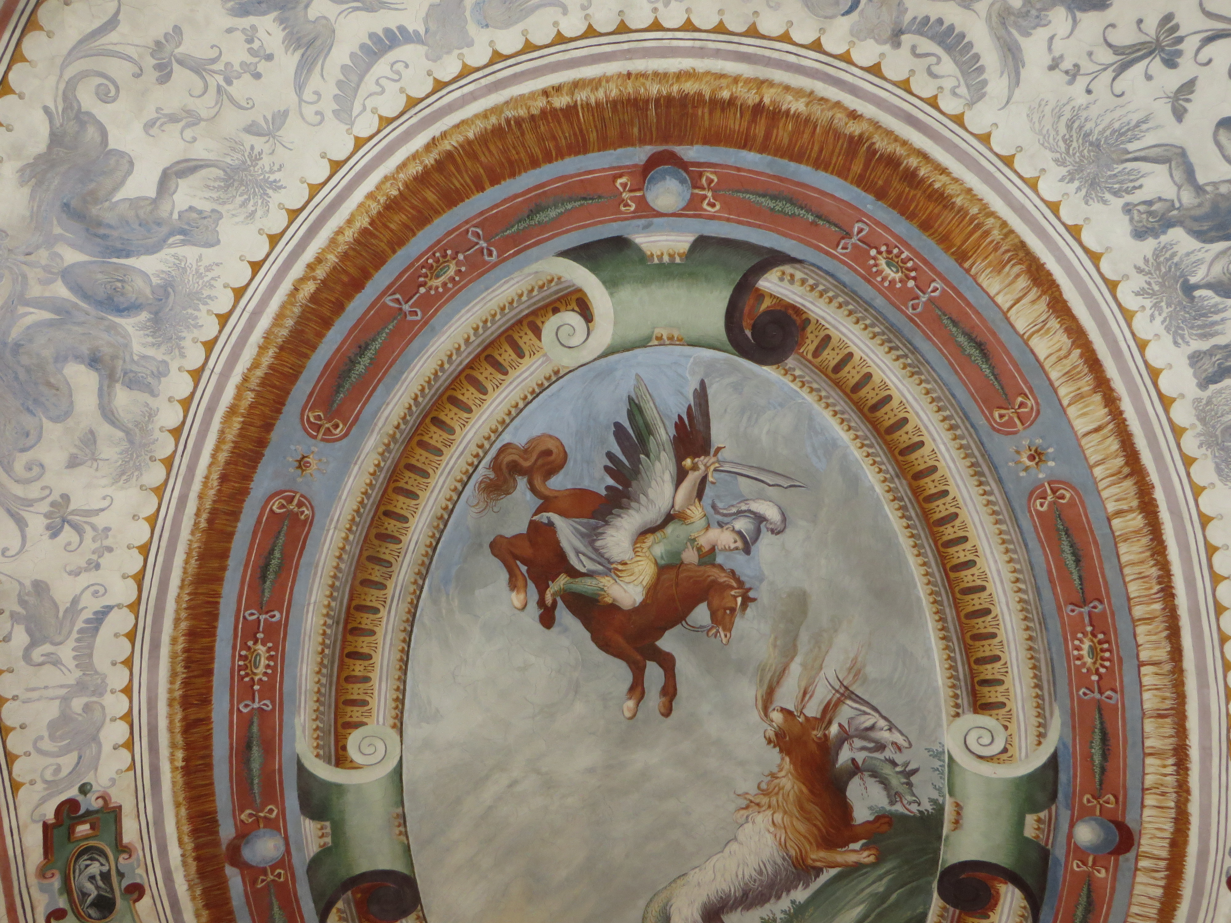 Rossi Castle IV